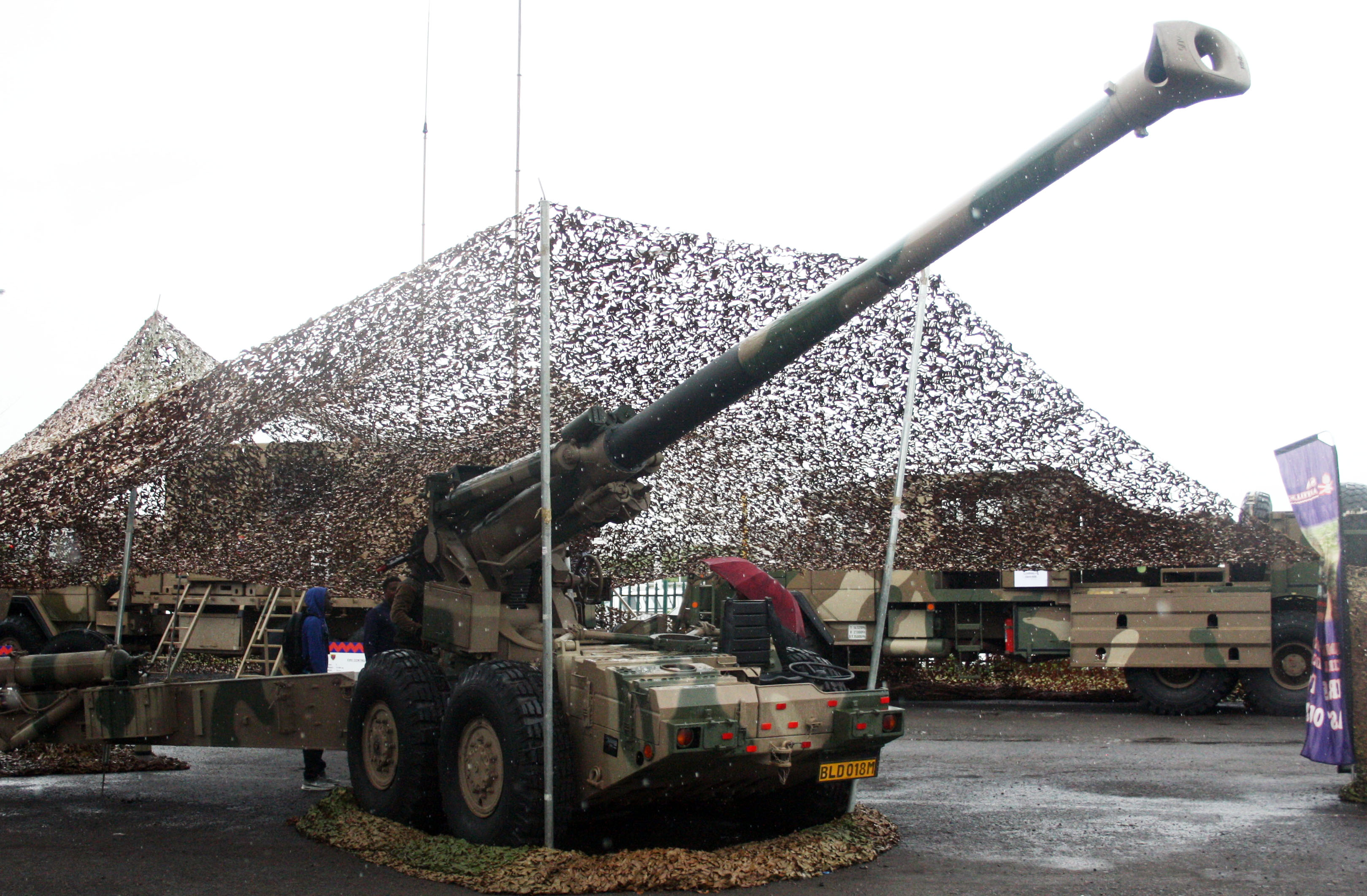 South African Army G5 155mm howitzer